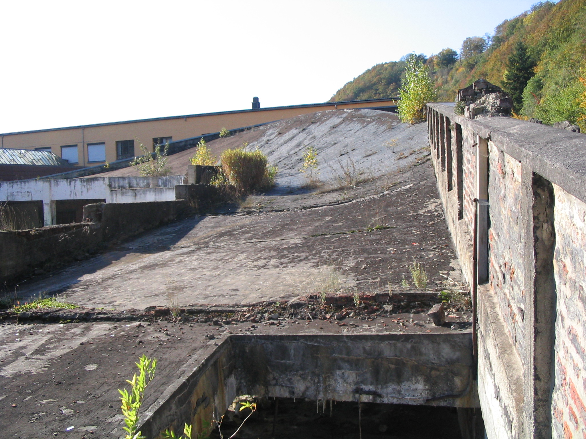 Imperia (cars) factory Nessonvaux (test track)